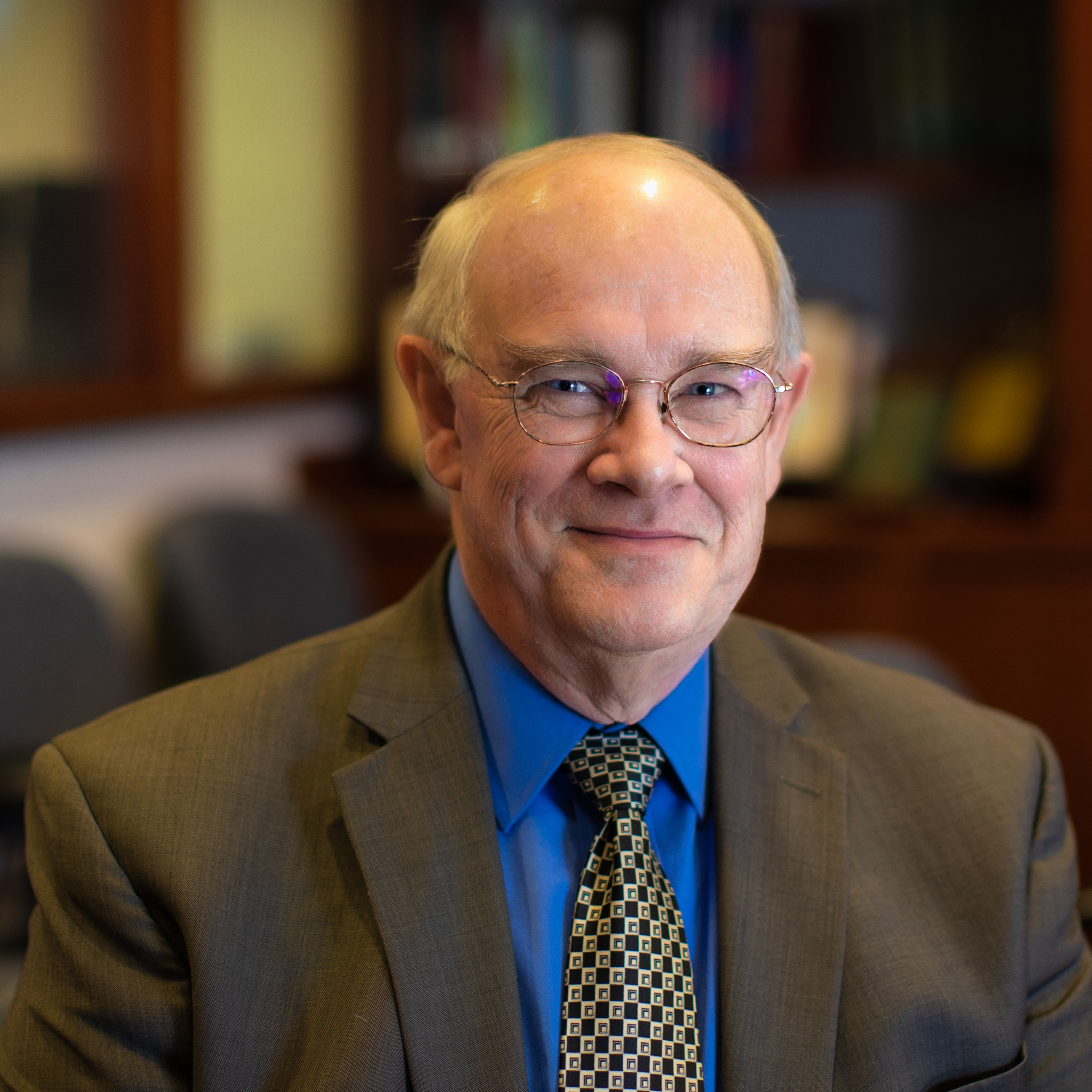 Paul A. Sieving portrait